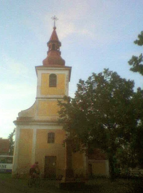 Kaple sv. Prokopa, Pochvalov (Czech republic, district Rakovnik)